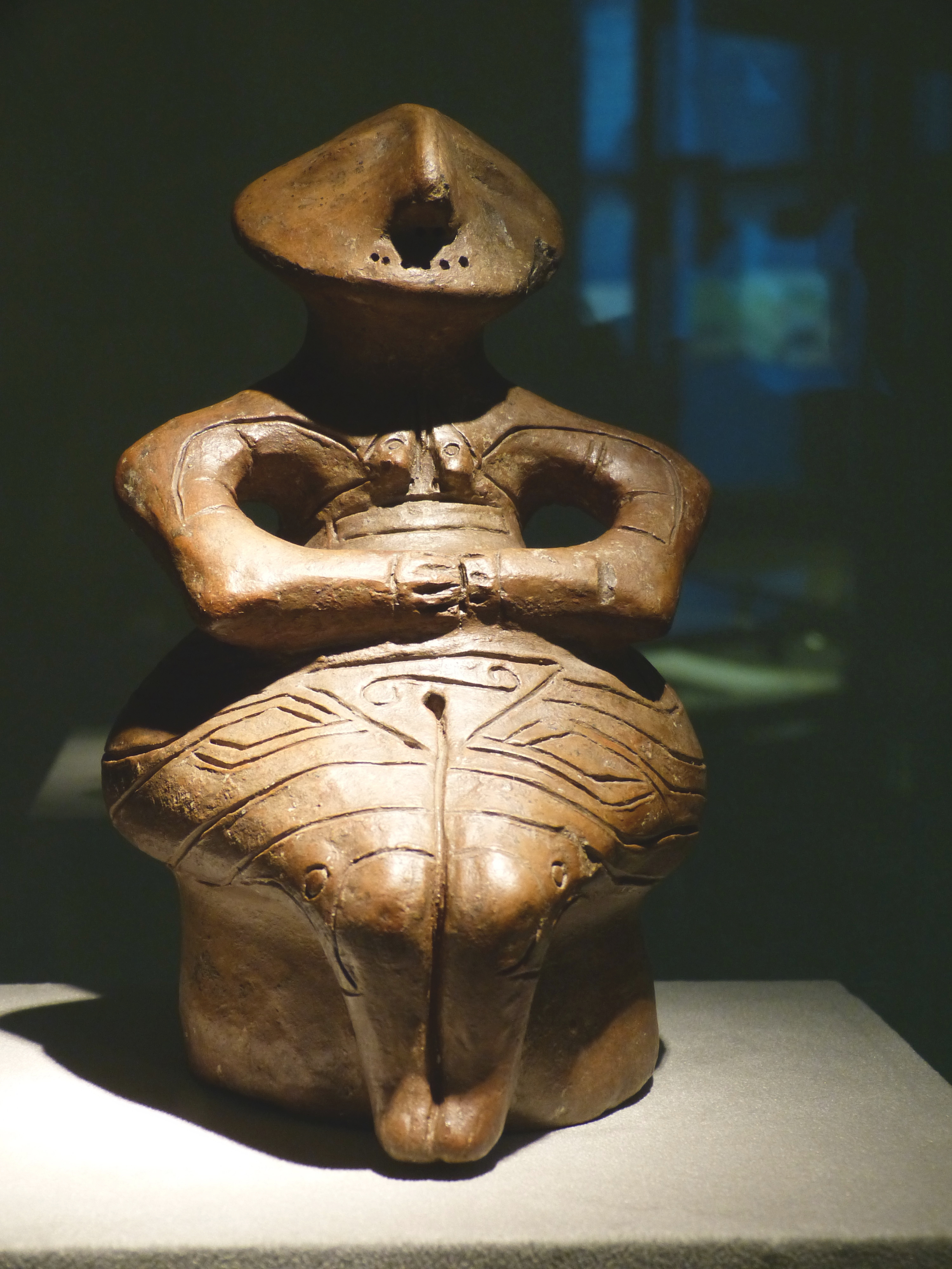 Natural History Museum, Vienna ( Austria ). Neolithic sitting figurine ( 5th millenium BC ) from Pazardzik ( Bulgaria )